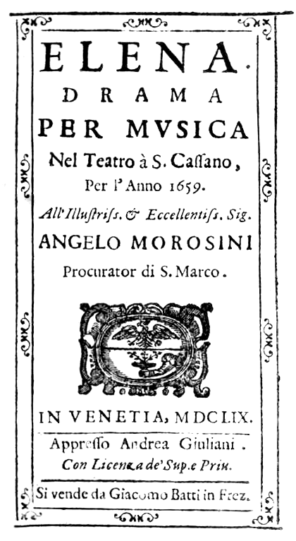 Francesco Cavalli - Elena - title page from the libretto - Venice 1659